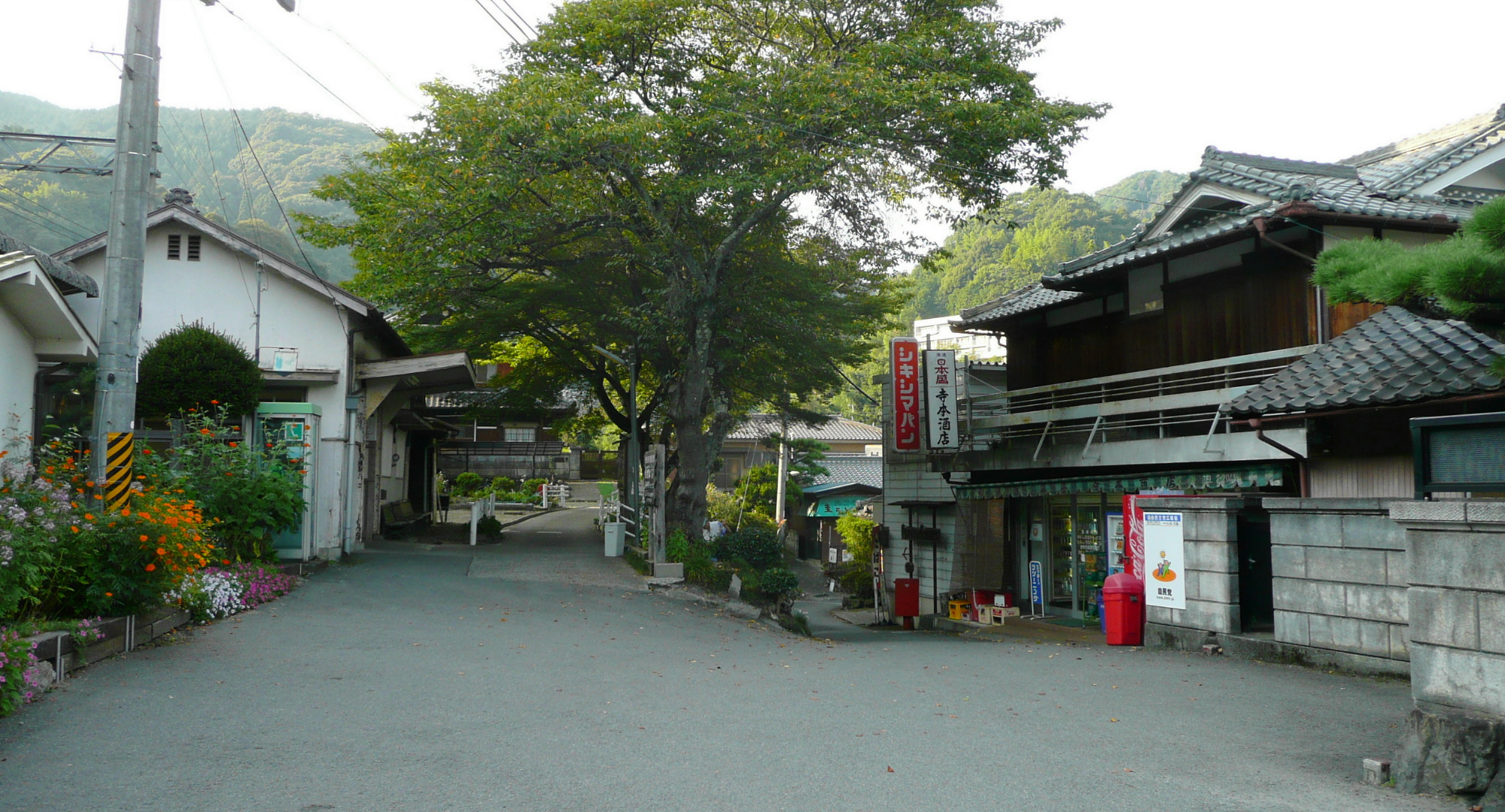 KIMITOGE Station plaza,Nankai Electric Railway.